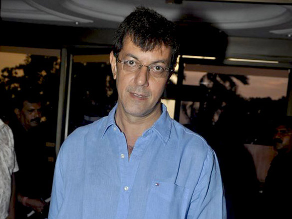 Rajat Kapoor at Aamir Khan Productions celebrates 10th anniversary